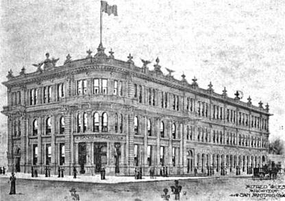 Banco Mercantil de Monterrey. Building of XIX century in Monterrey, Mexico.